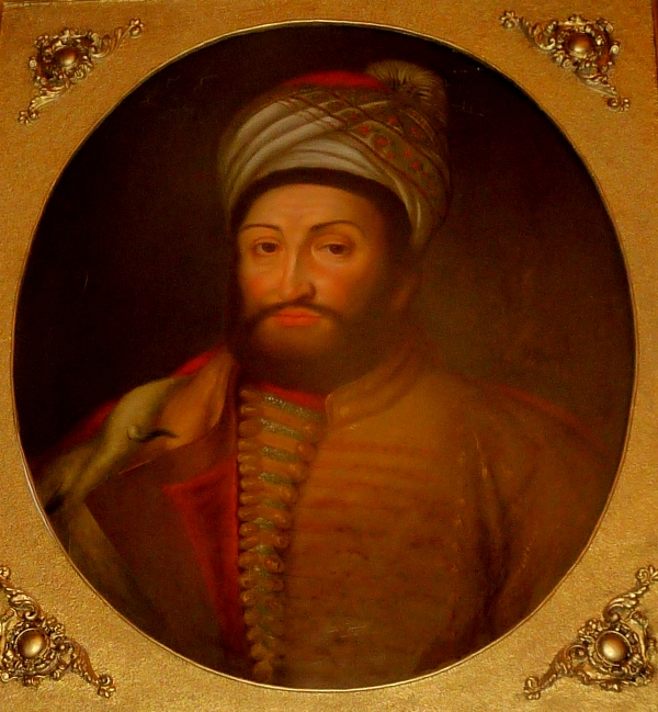 Teimuraz II of Georgia